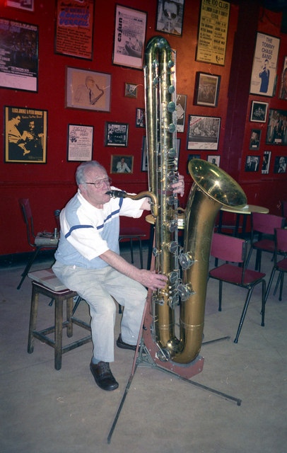 The biggest saxophone in the world This shows the veteran bandleader Harry Gold playing his contrabass saxophone in London's 100 Club in Oxford Street. Harry, who is now dead, was then 89 years old. The saxophone is believed to be one of only two such instruments in a playable condition in the UK; there are believed to be only 25 or so such saxophones anywhere in the world, some of which have been made recently.